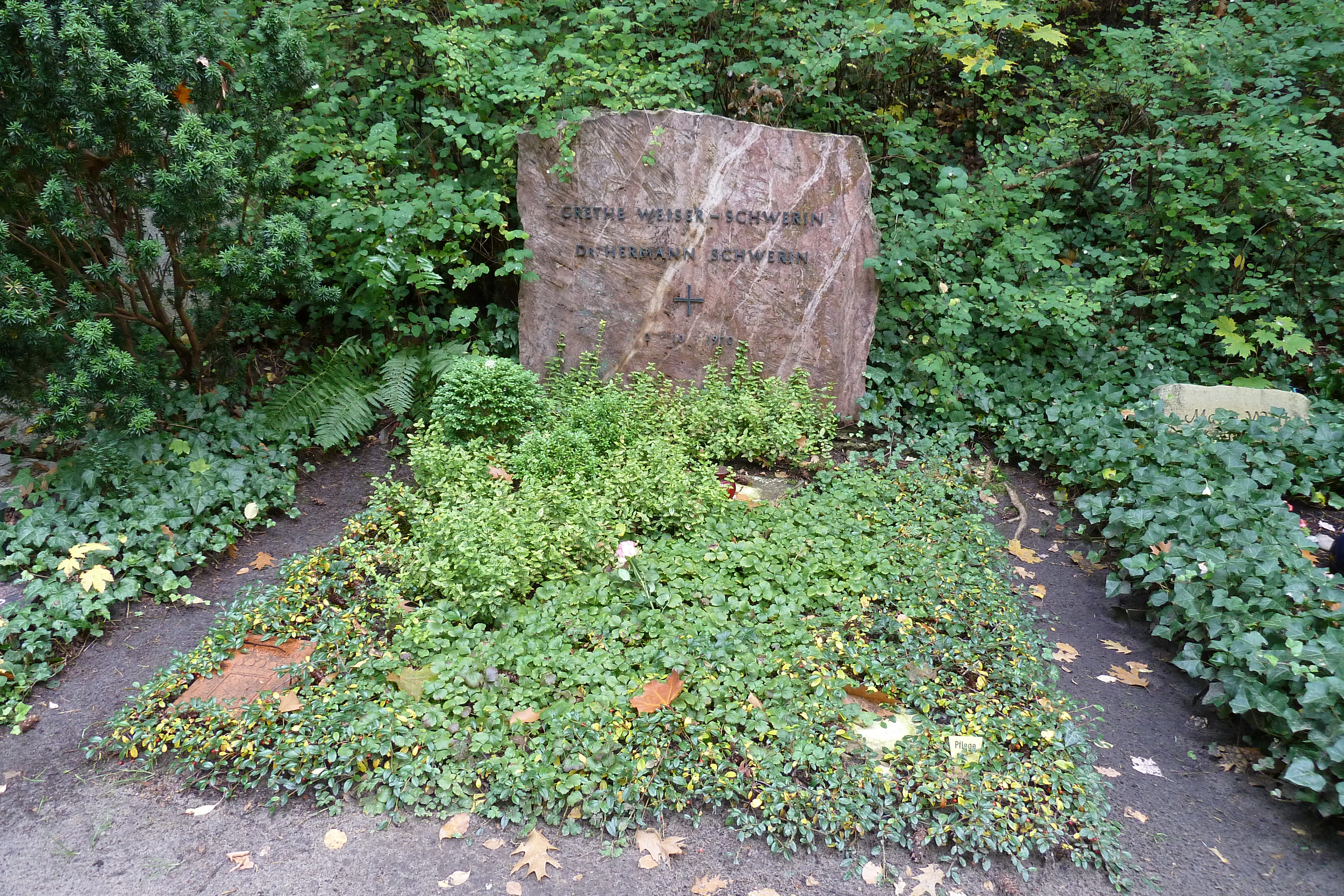 Grab Grethe Weiser